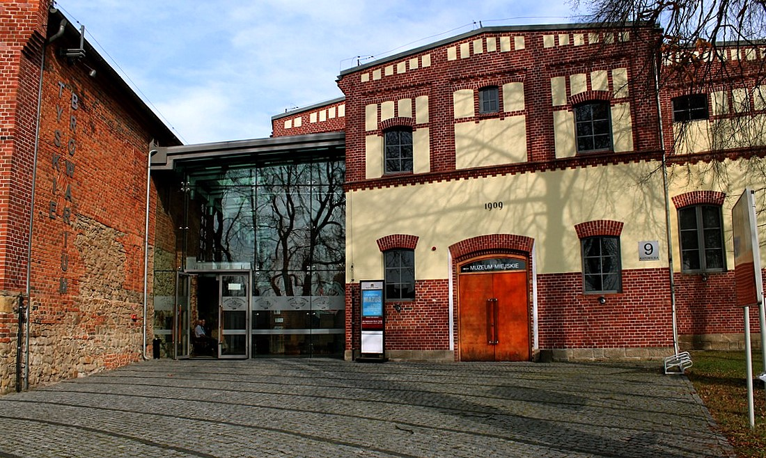 Tychy - The City Museum in the brewery.